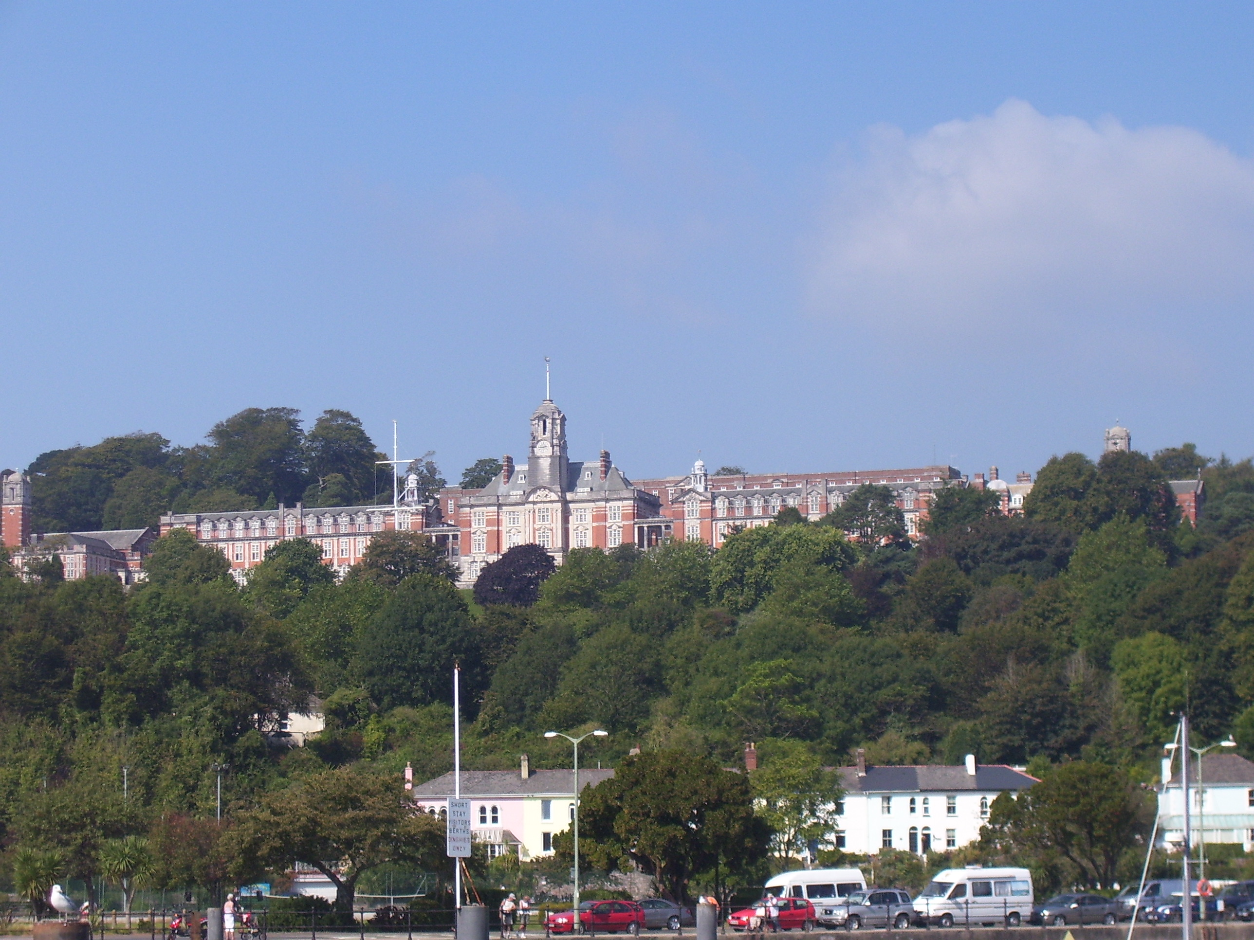 Britannia Royal Naval College, Dartmouth, England.